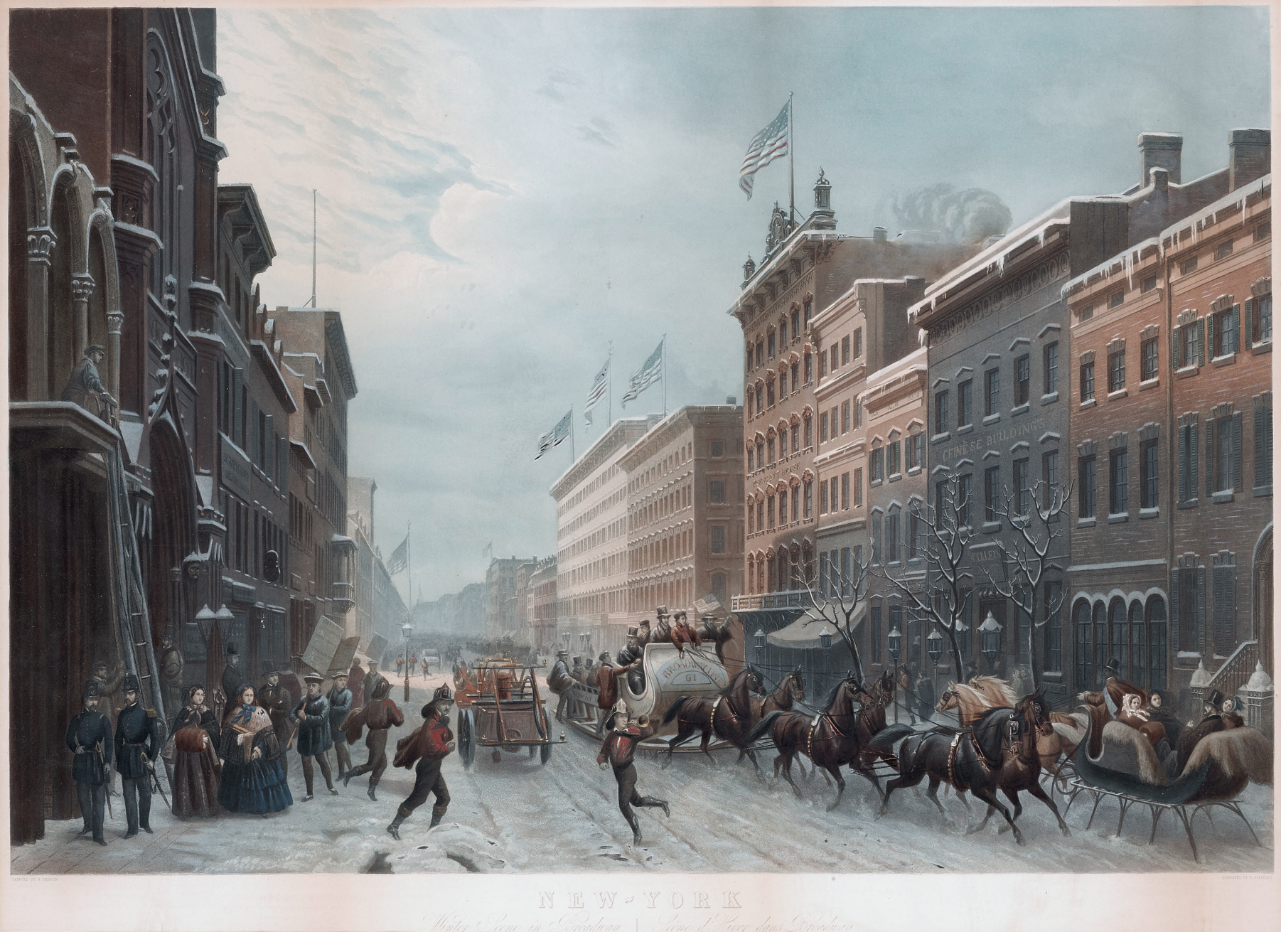 New York winter scene in Broadway color printed aquatint 673 x 902 mm 1857